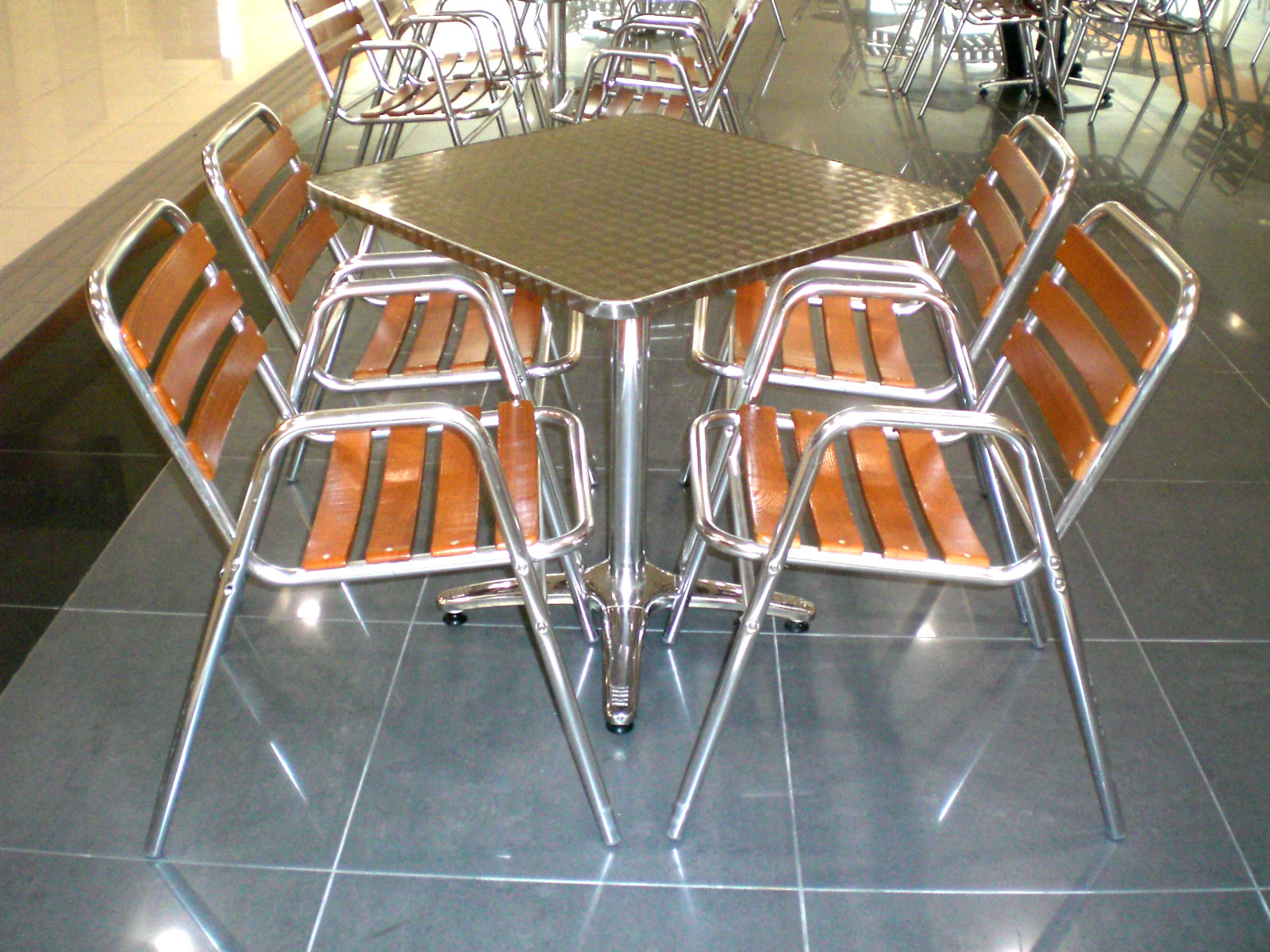 赤鱲角亞洲國際博覽館zh:快餐店